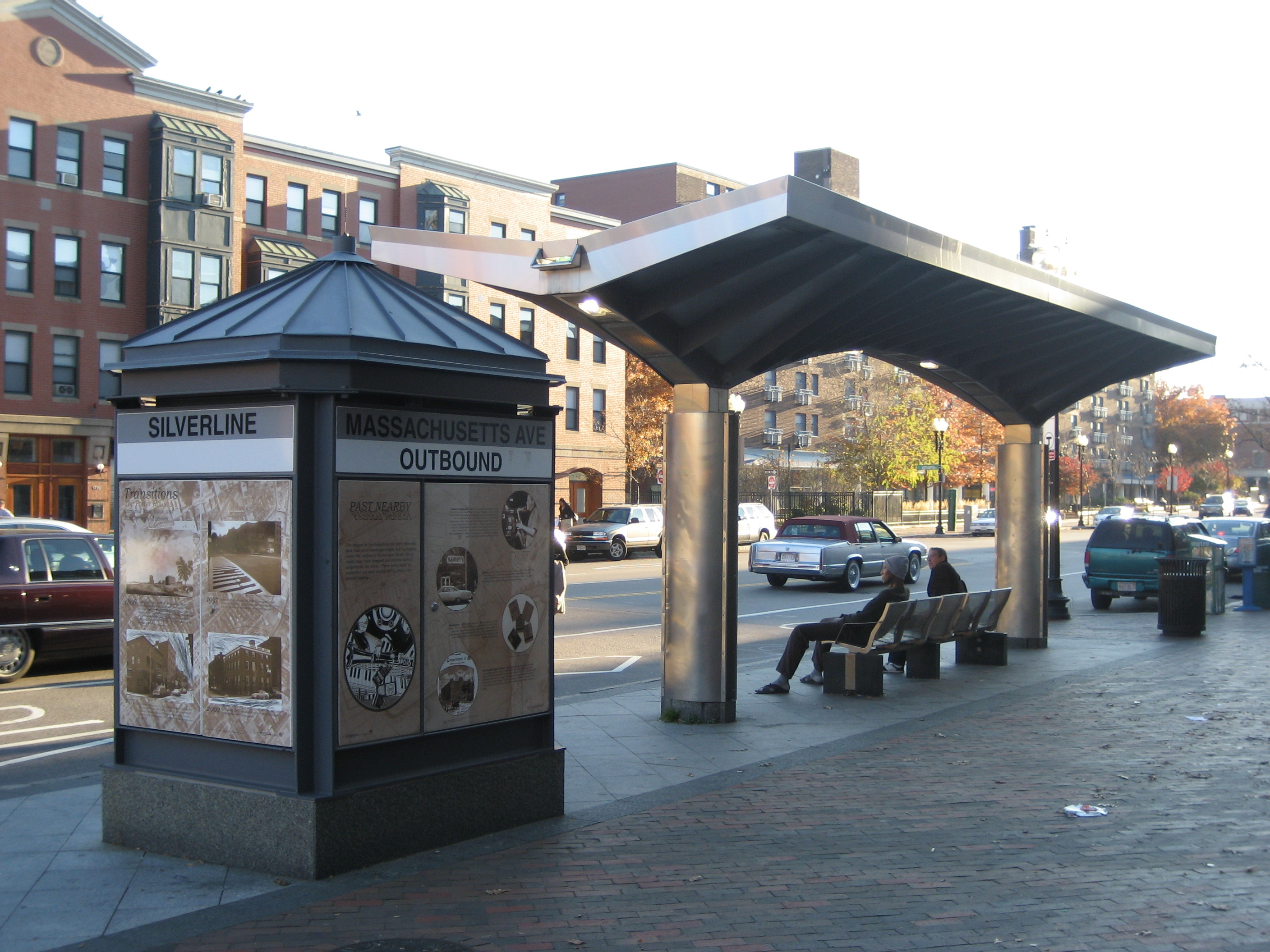 Massachusetts Avenue station outbound platform on the MBTA Silver Line.